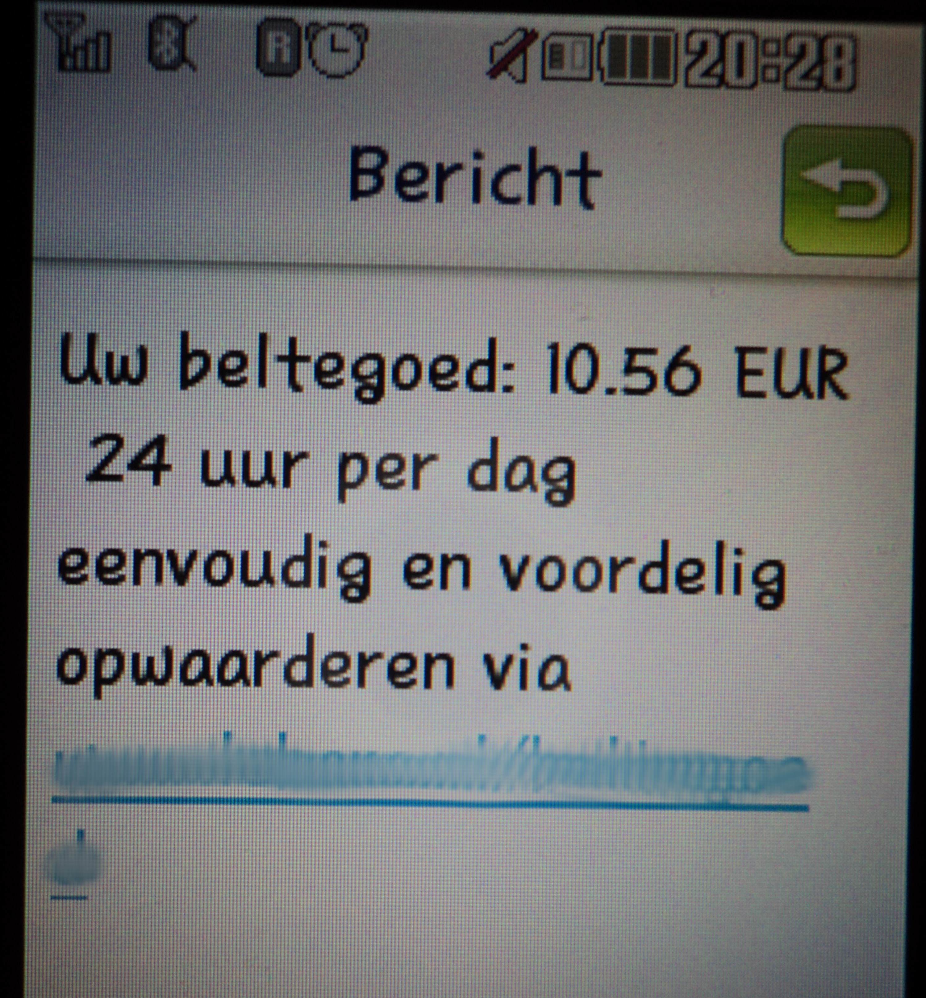 USSD on a phone (I called *100#). Phone: LG gt350.